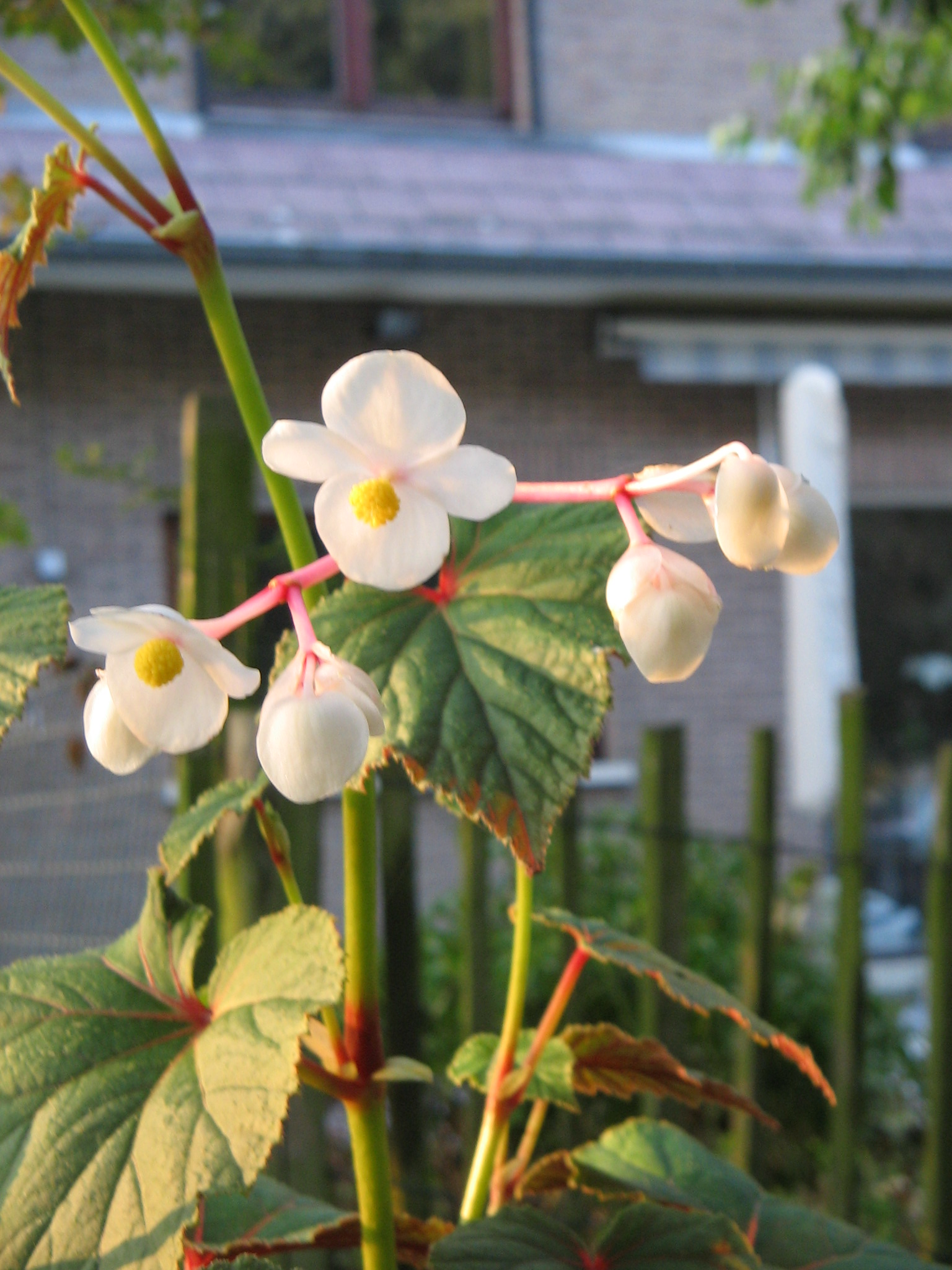 Begonia grandis subsp. grandis 'Alba' (syn. Begonia grandis subsp. evansiana) - close-up